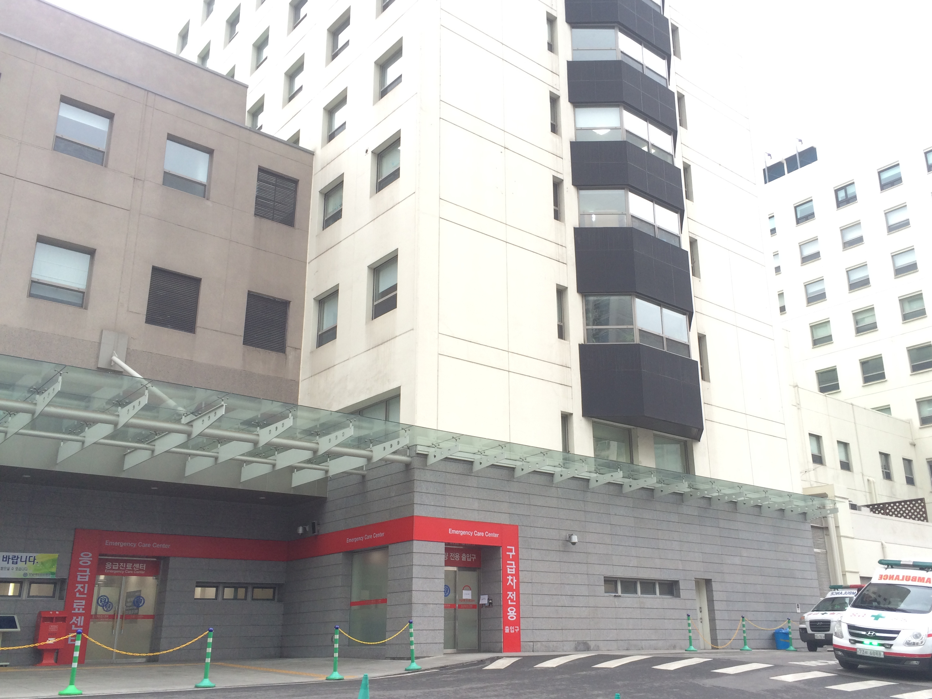 Emergency care center of the Gangnam Severance Hospital, Seoul, South Korea.